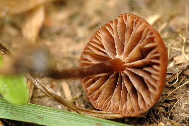 Psilocybe montana from Commanster, Belgium. The determination of the species shown in this picture has been verified.